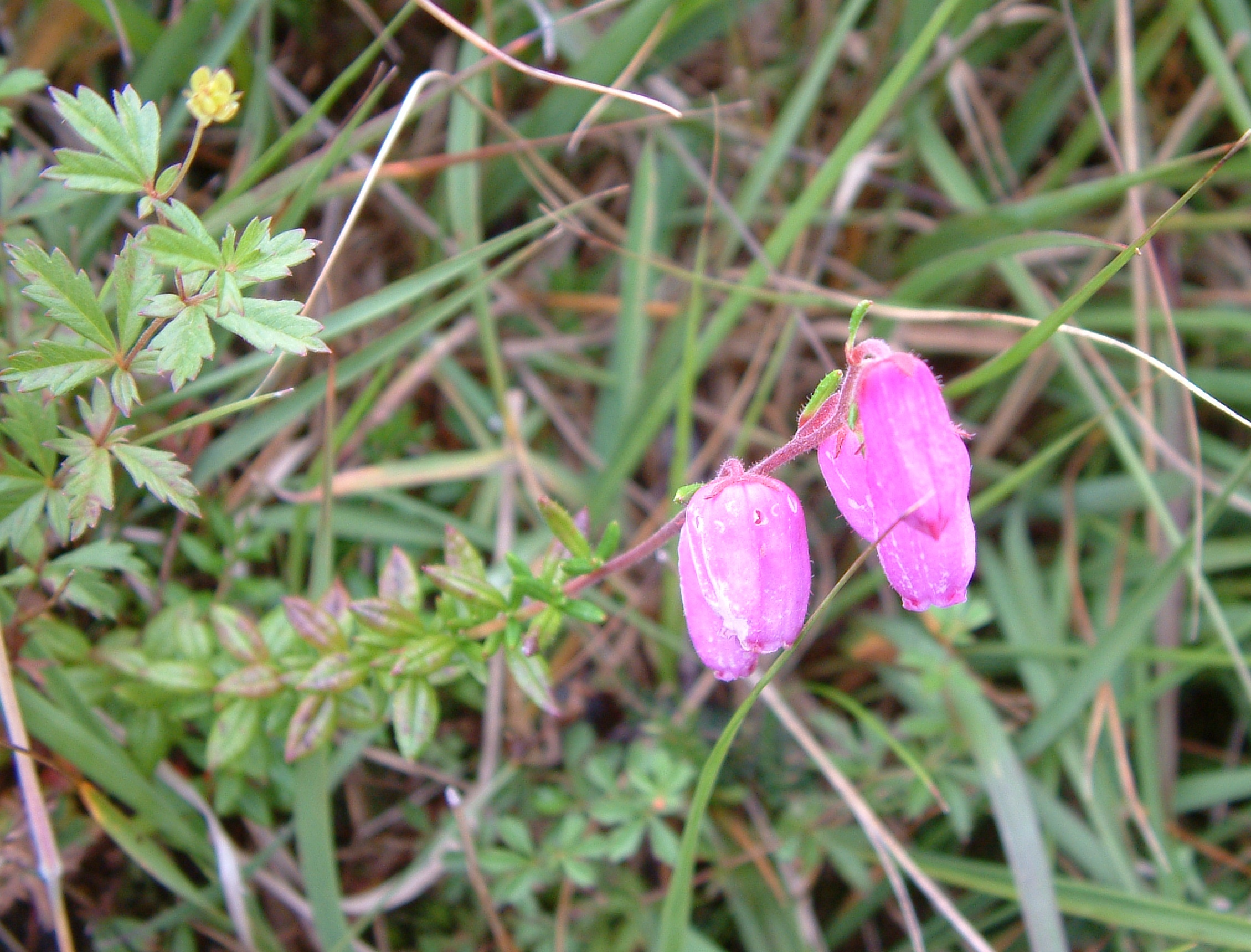 Daboecia cantabrica. In the heathland of Connemara National Park, Co. Galway, Ireland.